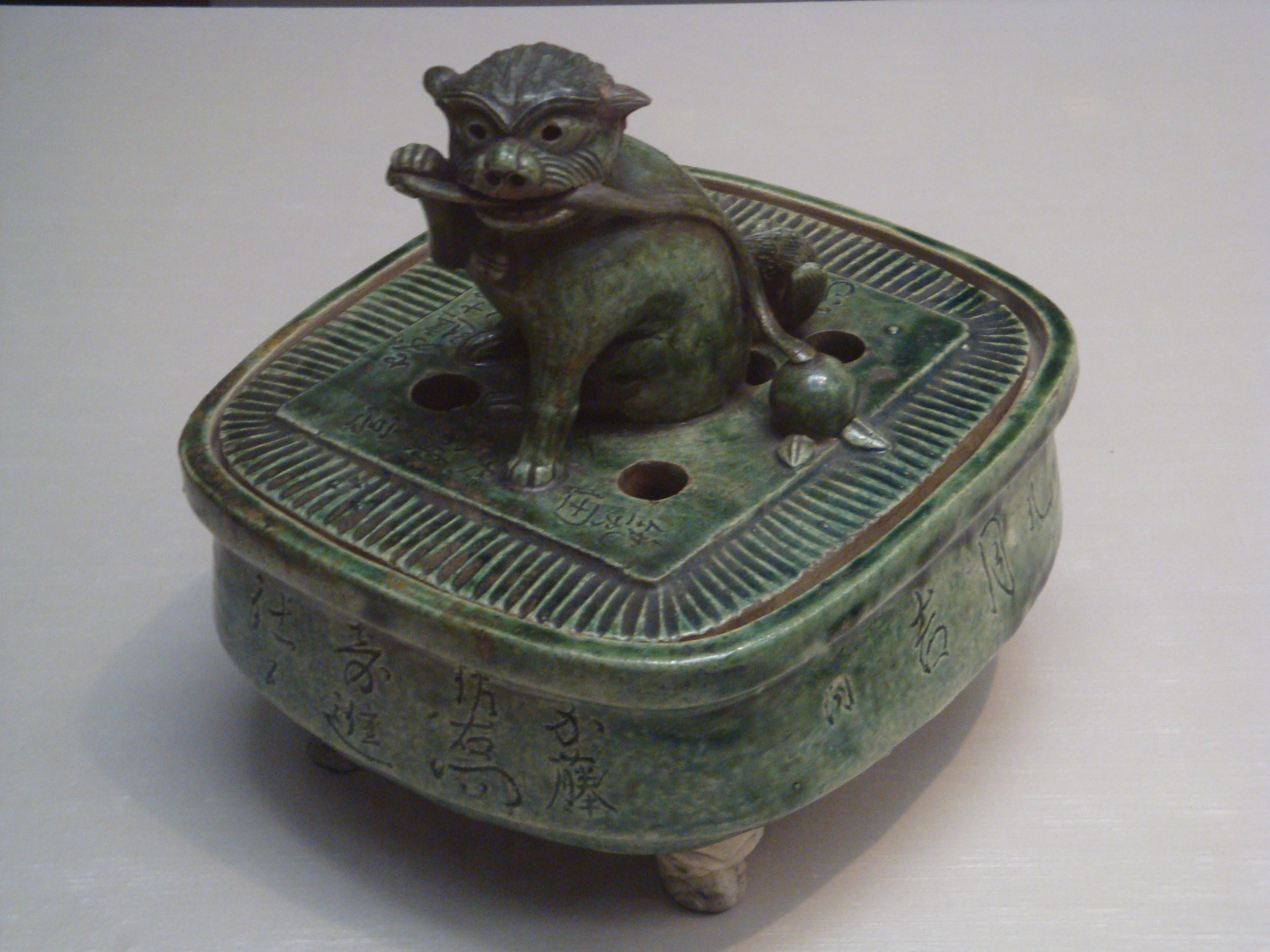 From the Edo period, dated 1612 A.D. Collection of Tokyo National Museum.